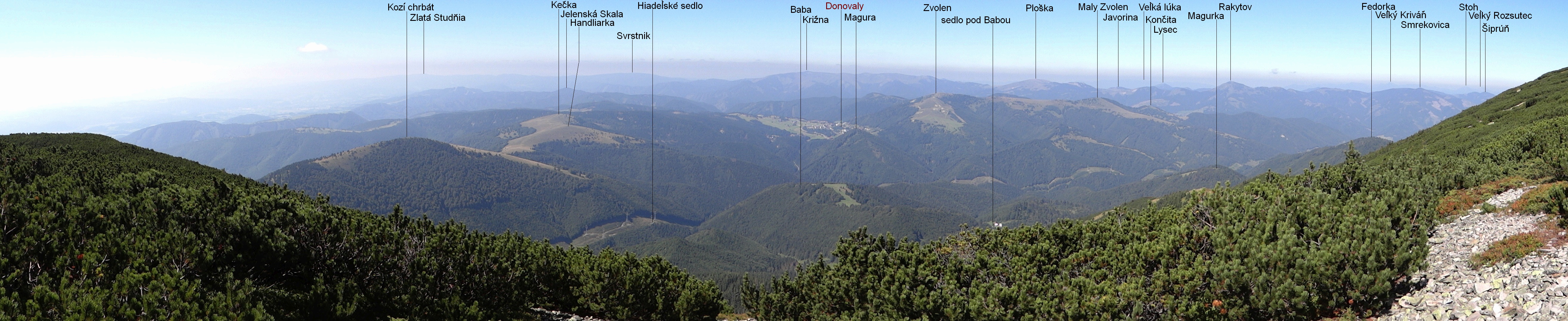 View from Prašivá